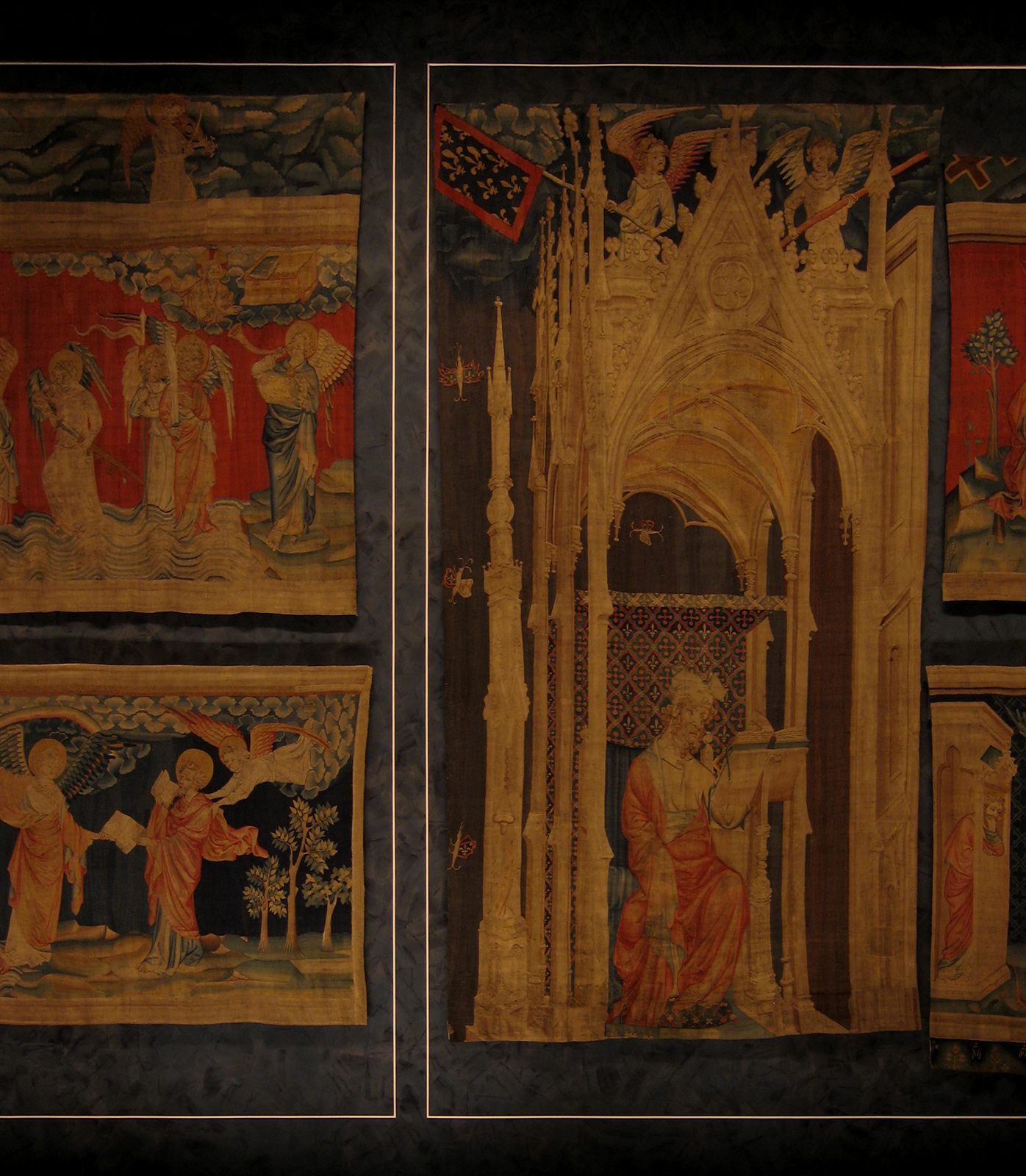 An outstanding example of tapestry art is the famous Angers Apocalypse, located in the Castle of Angers in the county of Maine-et-Loire/France